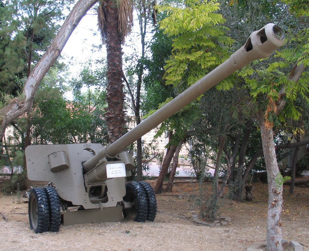 Description: Soviet M1944/BS-3 100 mm field/anti-tank cannon in Batey ha-Osef Museum, Tel Aviv, Israel. 2005. Source: Photo by me, User:Bukvoed.